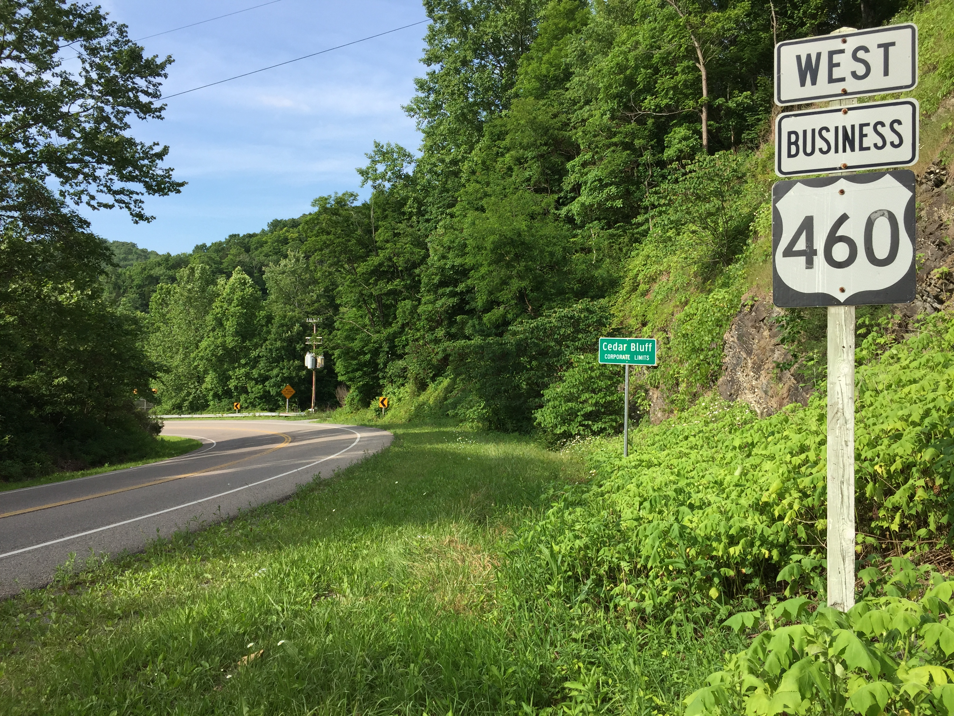 View west along U.S. Route 460 Business (Cedar Valley Drive) just west of U.S. Route 460 (Governor George C Peery Highway) in Cedar Bluff, Tazewell County, Virginia